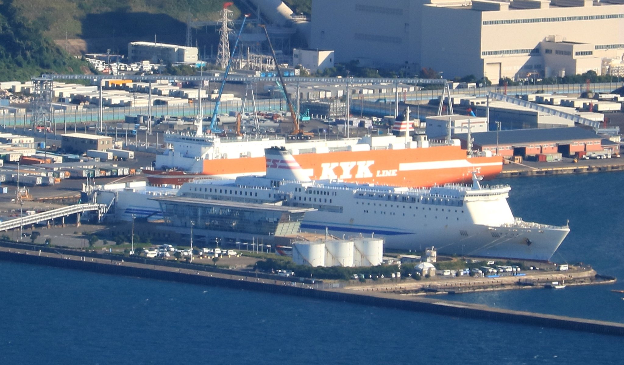 Tsuruga Ferry Terminal with Ferry Suzuran (ship, 2012) seen from Mount Sazae in Tsuruga, Fukui prefecture, Japan.